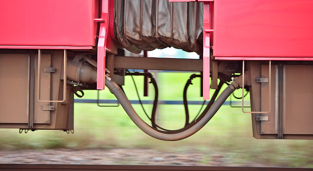 Connecting bar of Meitetsu 3500 ( II ) series